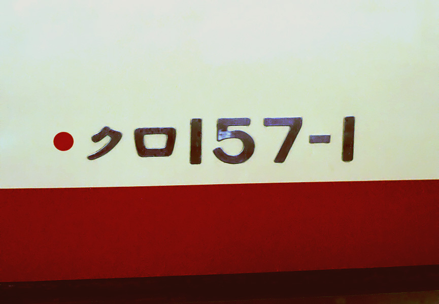 The model number and marking of KuRo157 type EMU of Japanese National Railways at Shinagawa Station. The marking means it is taken measures to pass through the steepest gradient line in Japanese National Railways(66.7‰) that once existed between Yokokawa and Karuizawa in Shin'etsu main line.